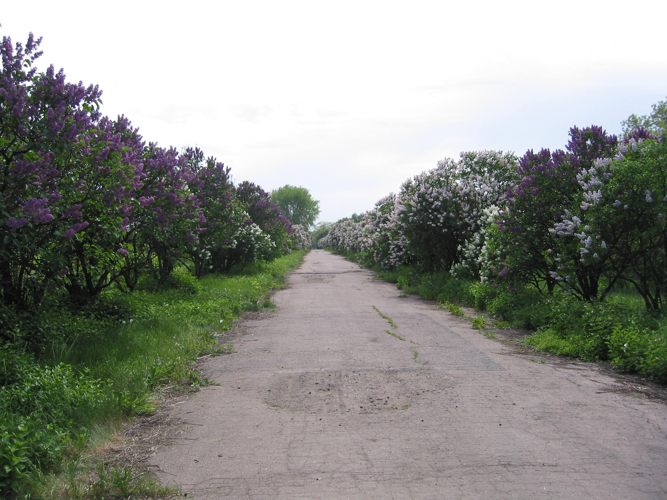 In Donetsk botanic garden